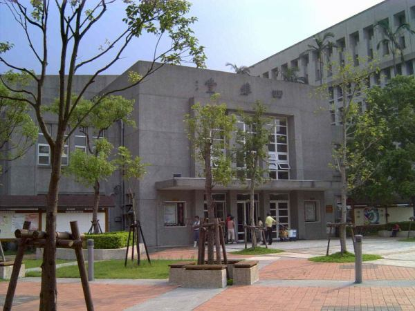 Siwe Auditorium, National Chengchi University